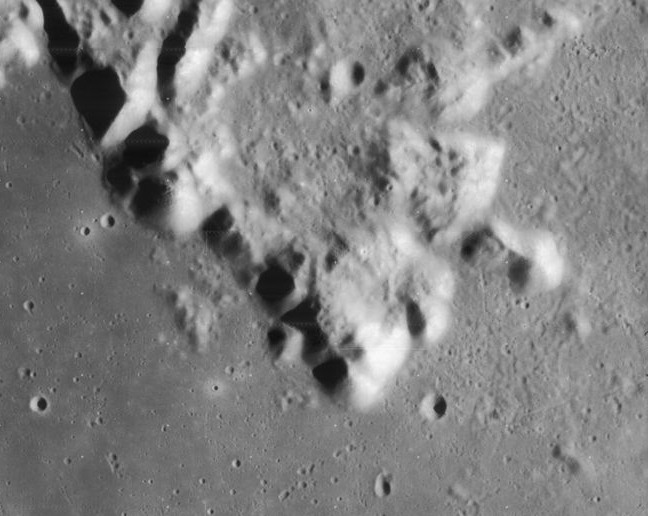 Promontorium Agassiz on the Moon, southern end of Montes Alpes.